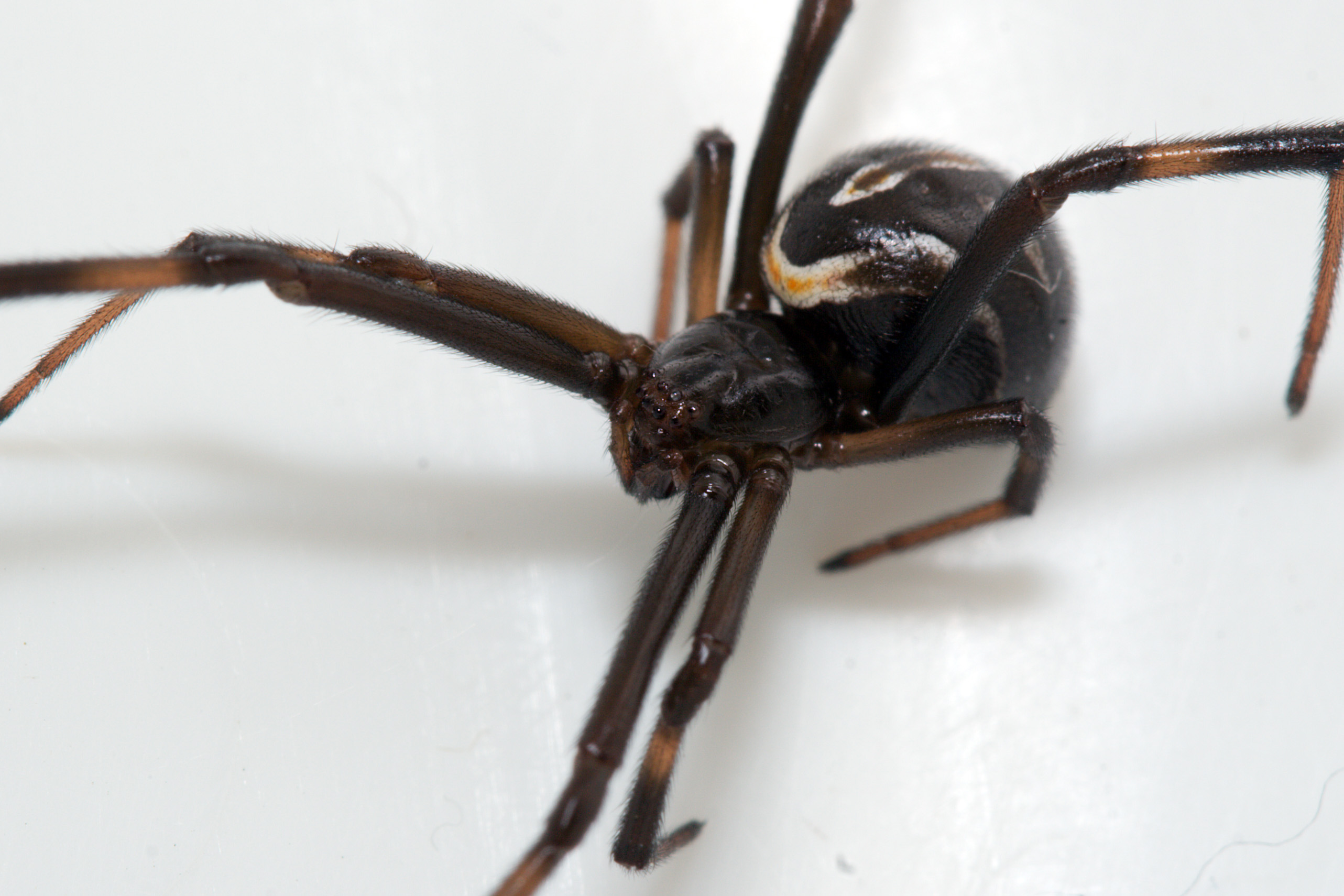 Immature female black widow spider Latrodectus hesperus 10 Sept 2006, Los Angeles, California, USA Original image/own work Matthew Field